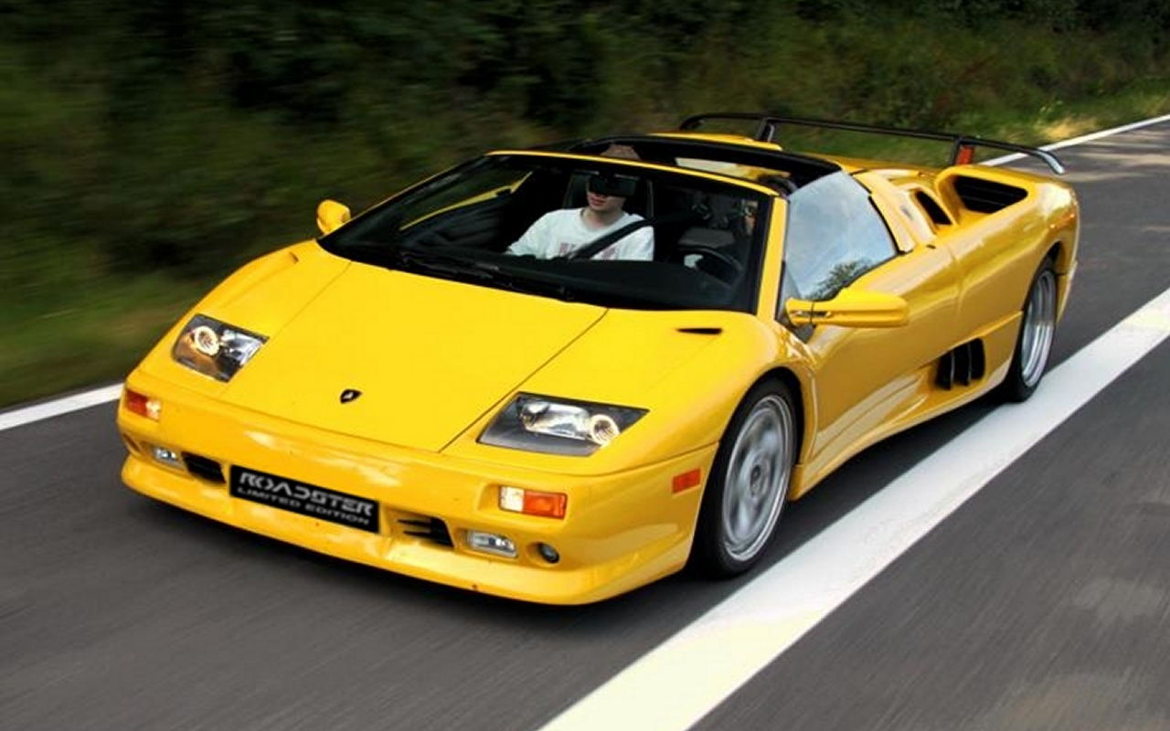 Lamborghini DIABLO VT ROADSTER 1999 near the Nürburgring 2012